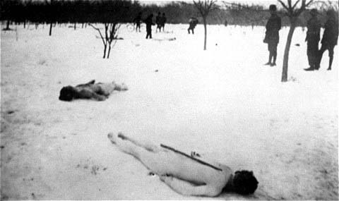 Jewish bodies in Jilava forest after the Legionnaires' rebellion and Bucharest pogrom.